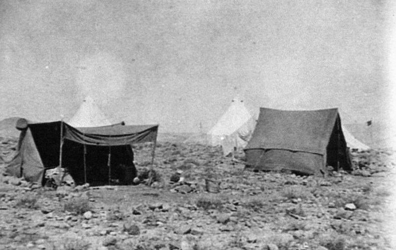 Officers tents from the Anzac Mounted Division camp at Talat ed Dumm